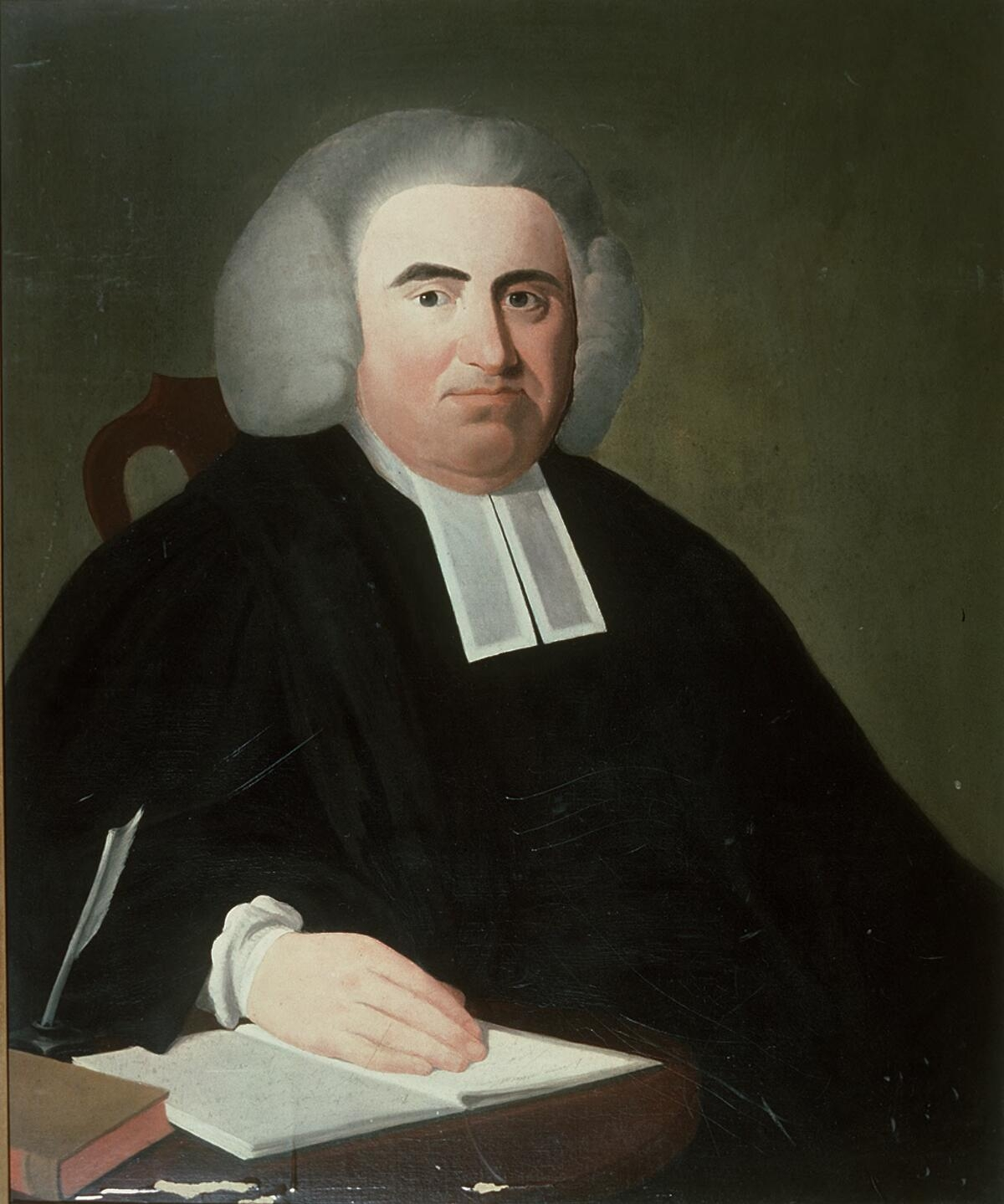 A painting from the Framed Works of Art collection at the National Library of wales.